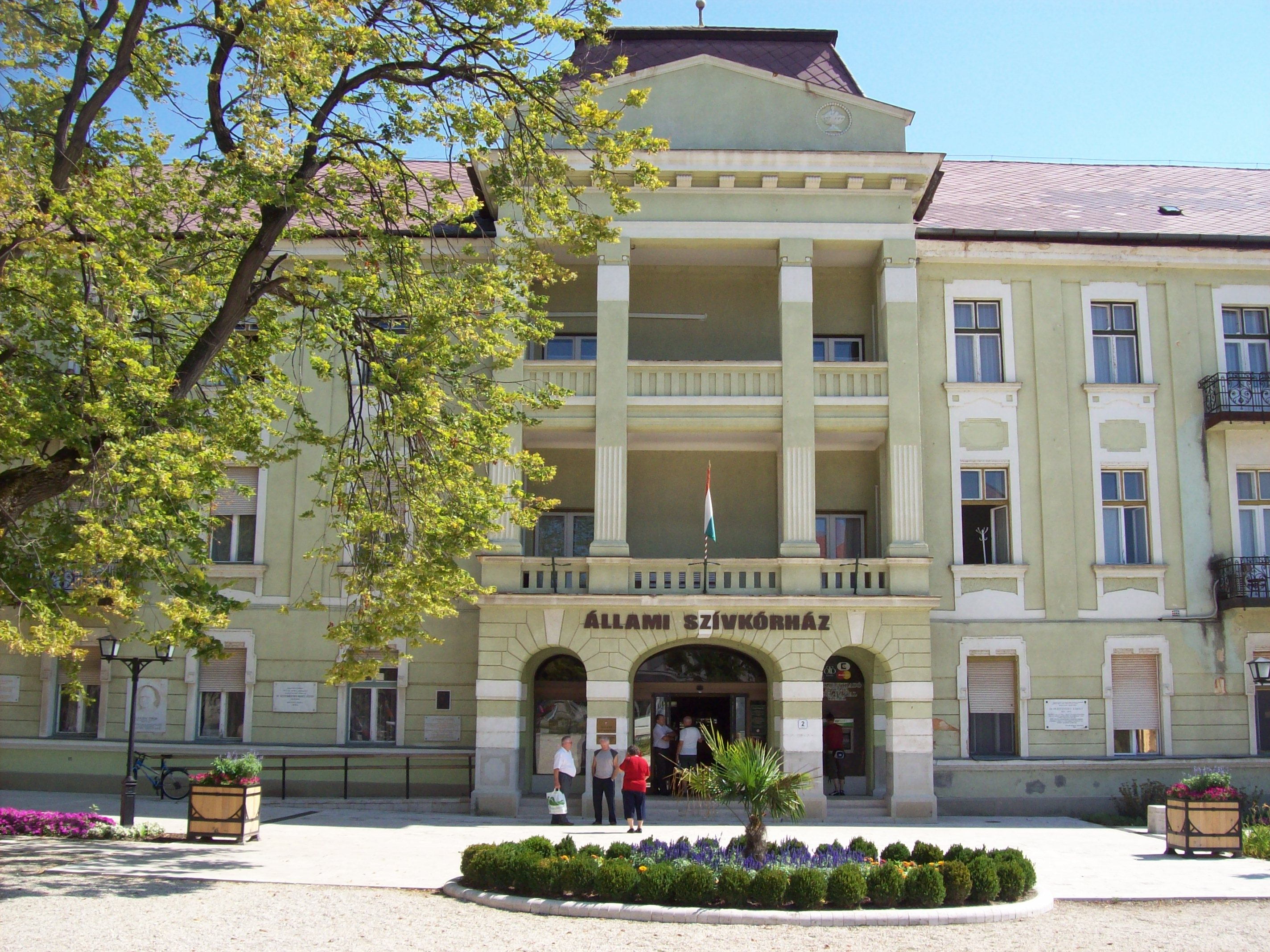 Balatonfüred, Szívkórház This is a photo of a monument in Hungary, Identifier: 9742